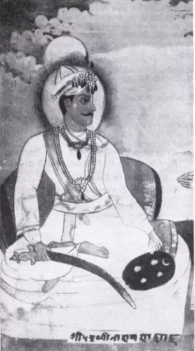 King Prithvi Narayan Shah of Nepal (1723-1775 AD), King of Gorkha who did Unification of Nepal